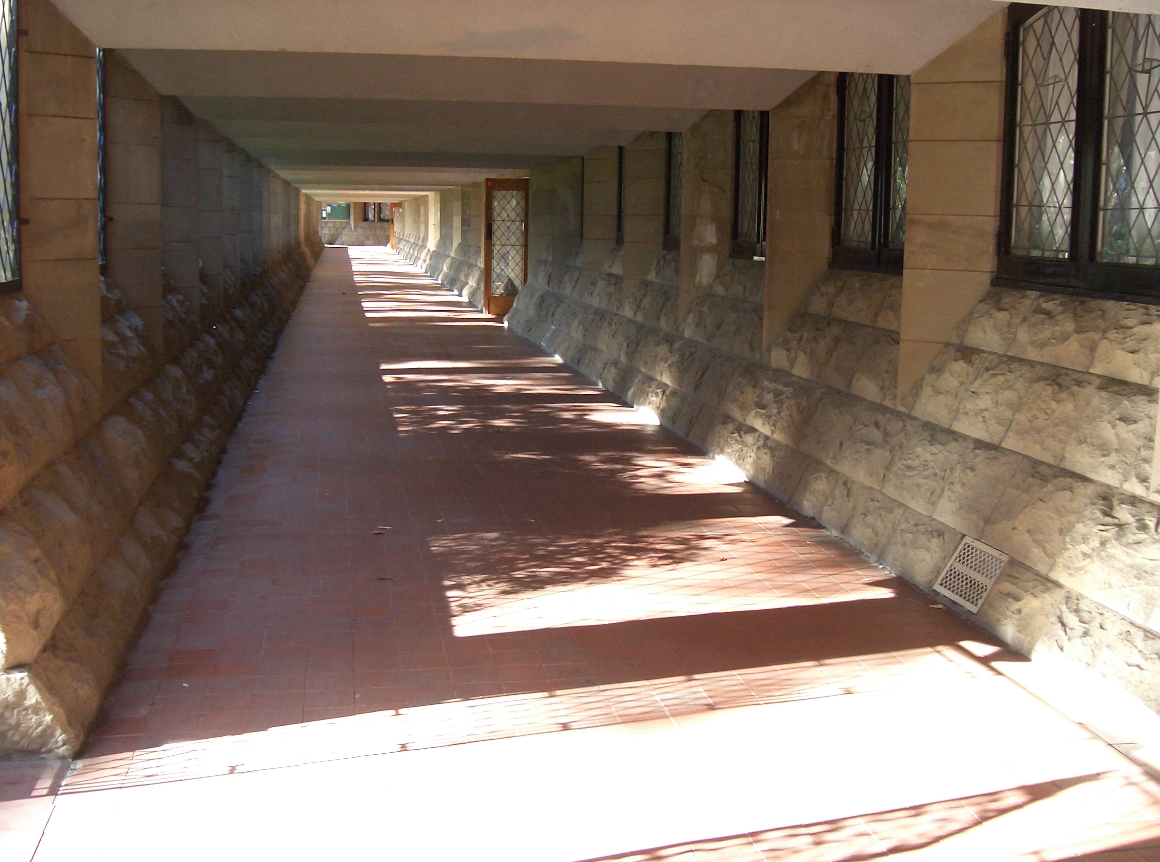 The walkway of the Manning wing of Newman College, University of Melbourne. Light pours in from the courtyard at the left.